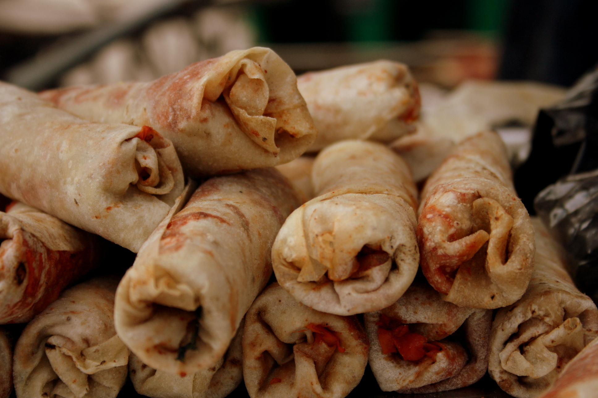 Mutton kati roll is a street food originated in Kolkata. This photo was taken during Eid celebration at Ahmedabad